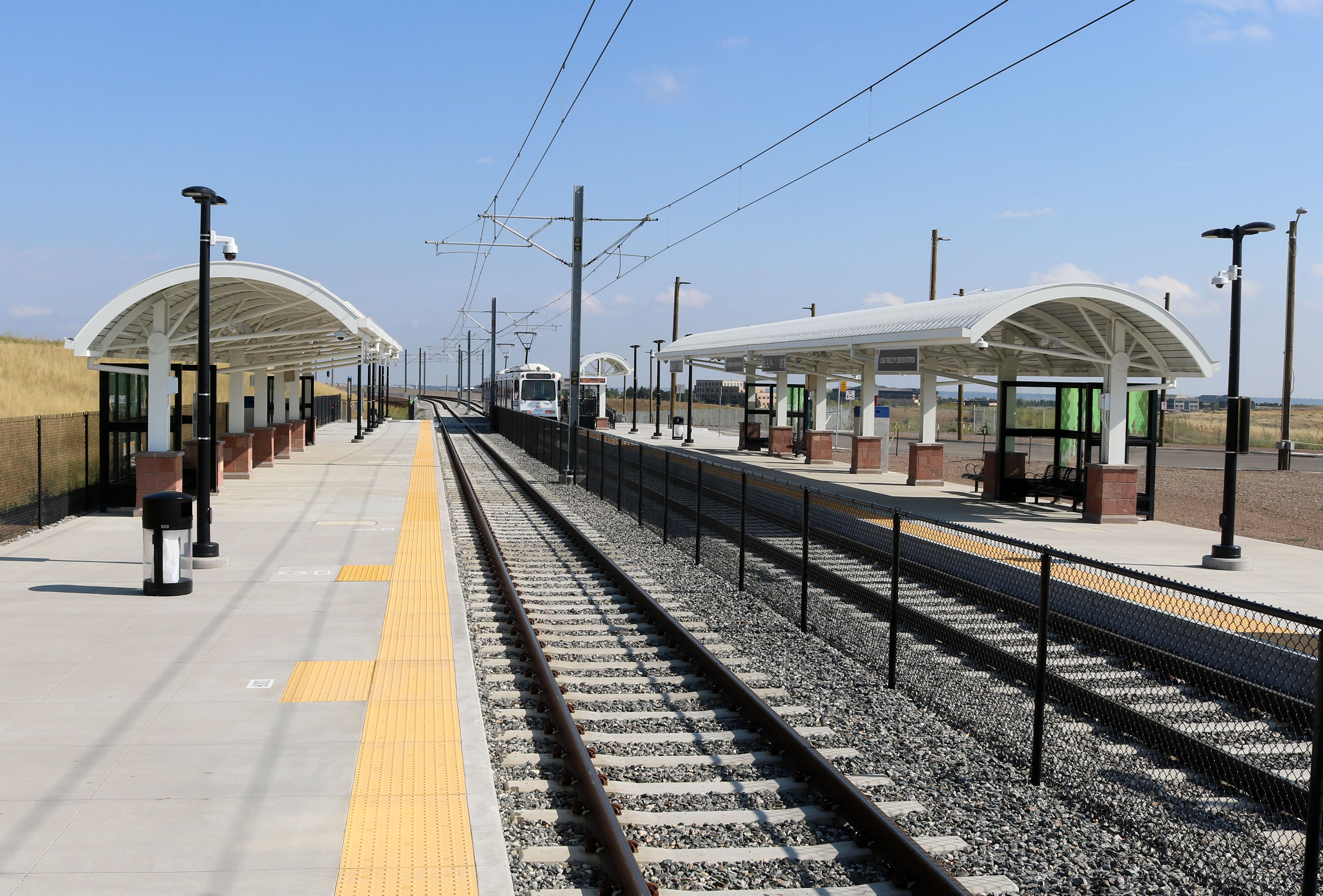 The Lone Tree City Center RTD light rail station, located at 11023 RidgeGate Parkway in Lone Tree, Colorado.